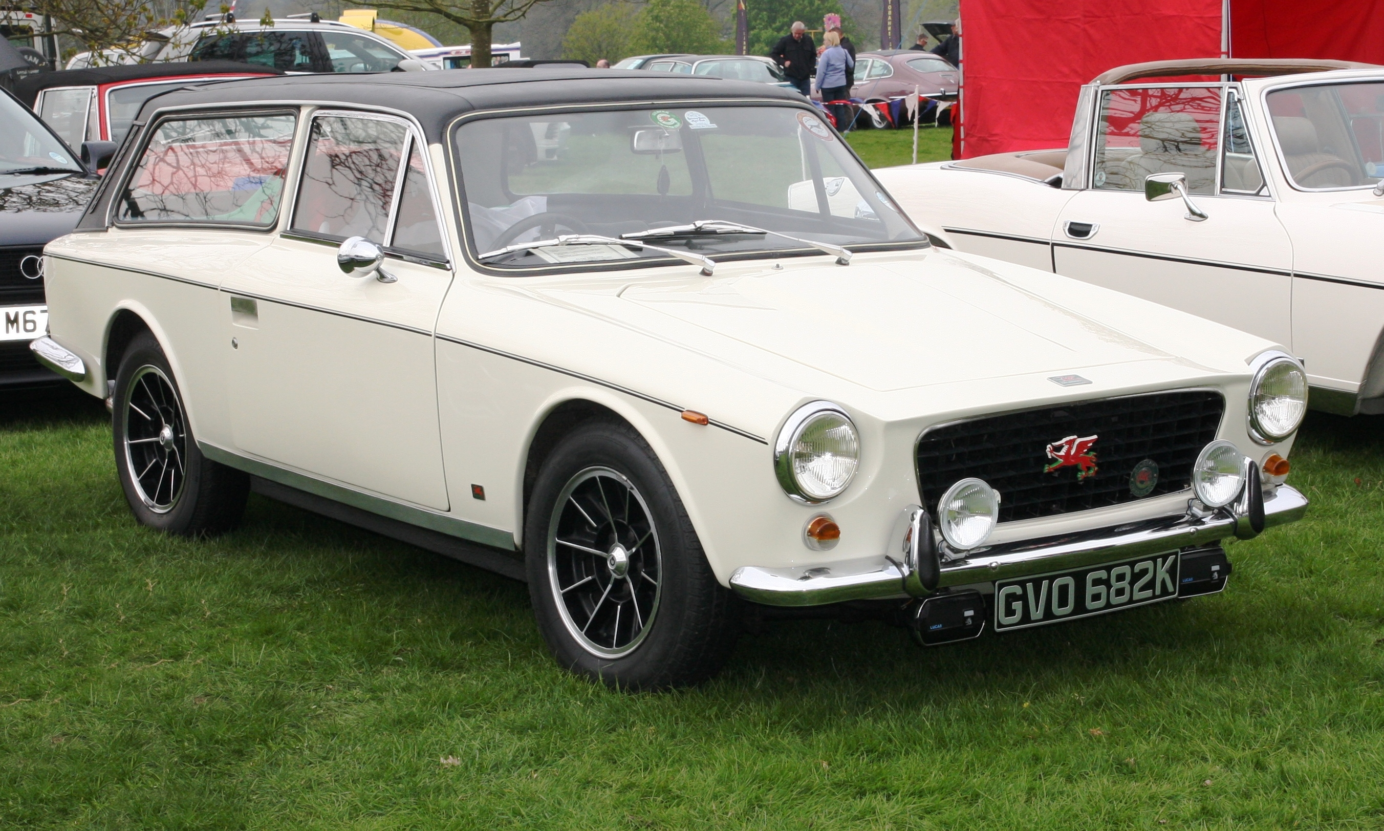 Gilbern Invader estate at Weston Park on Easter Sunday